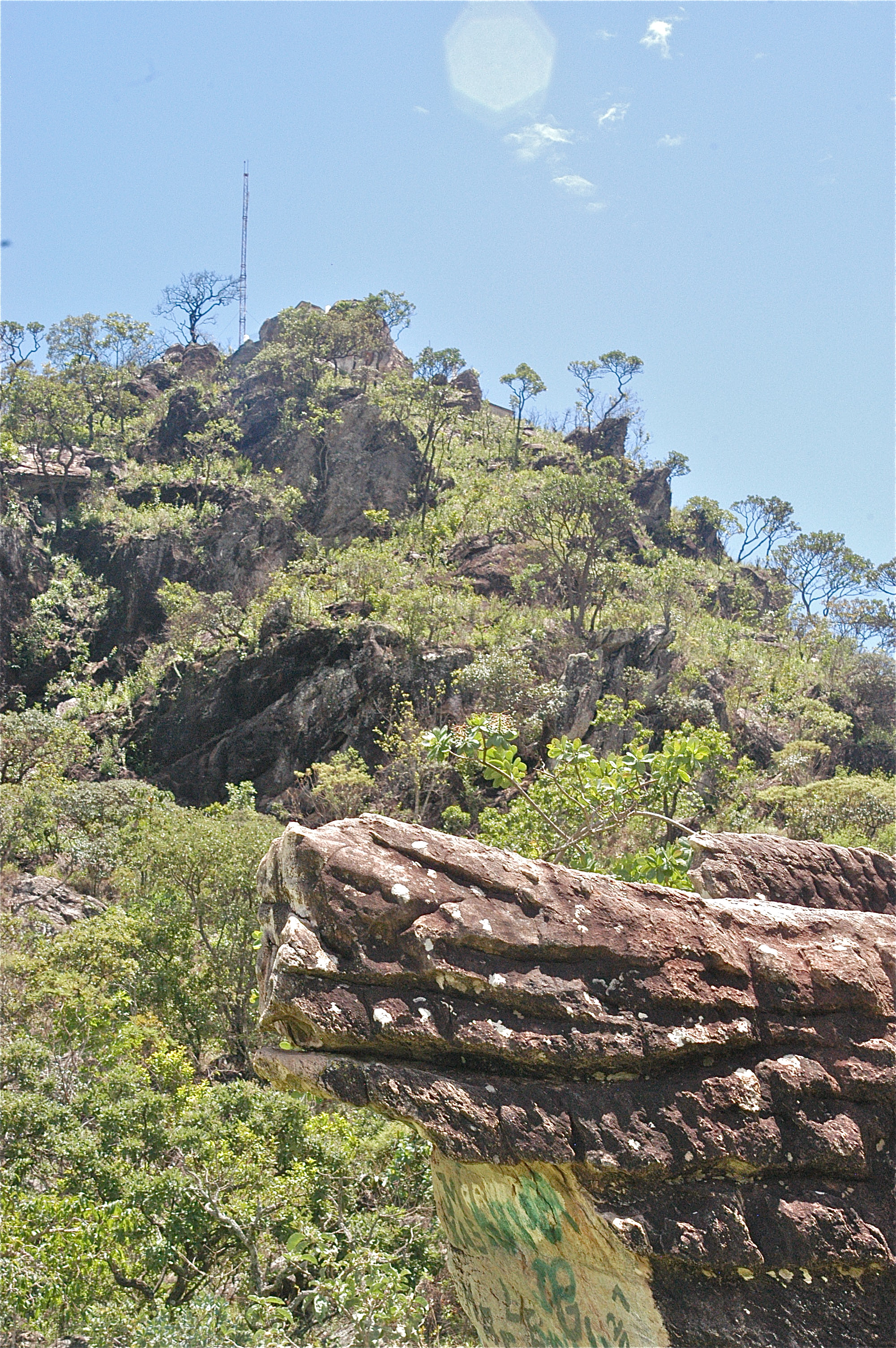 Pireneus montain top from its 70 m under it